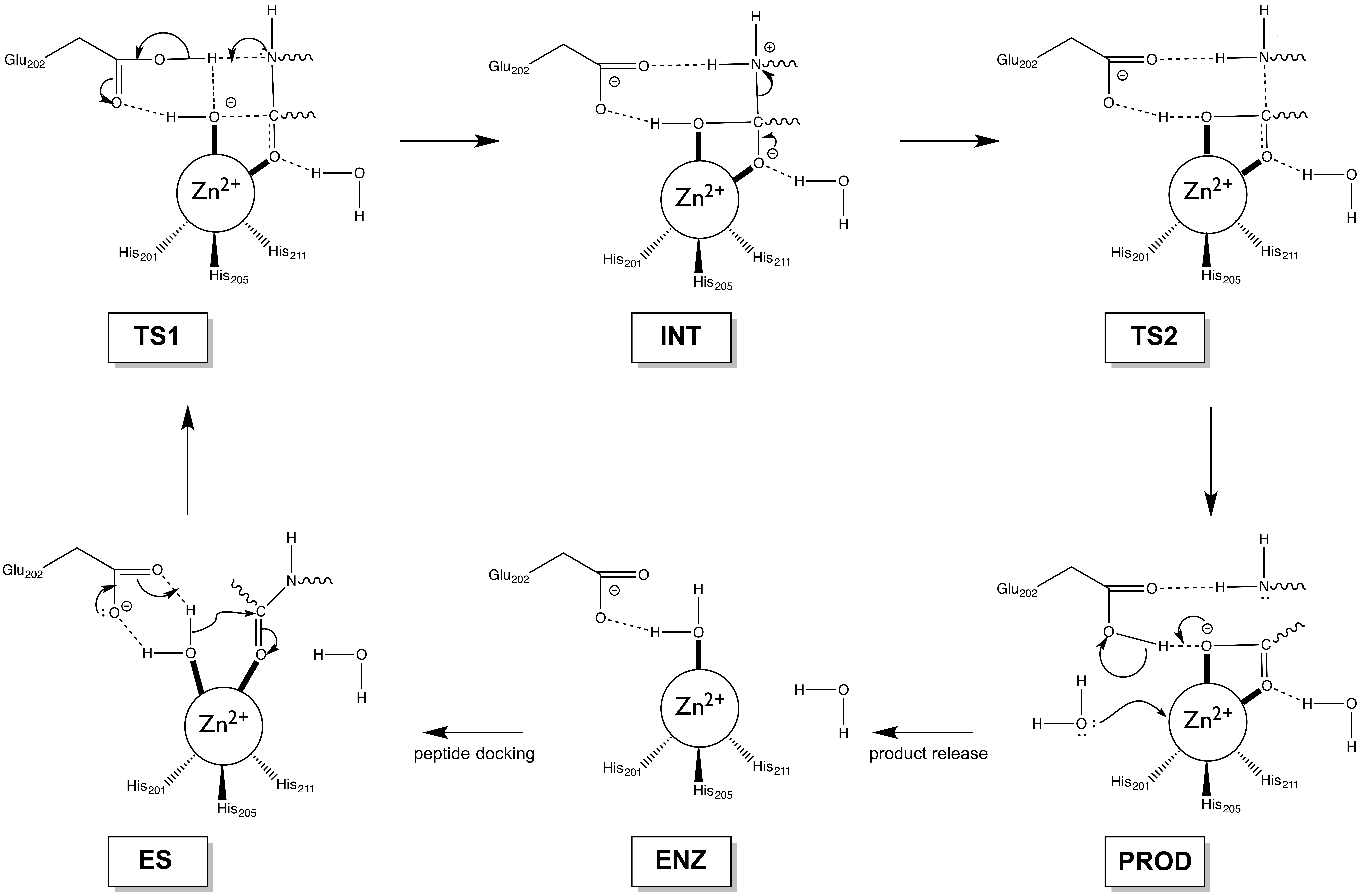 The catalytic mechanism for Matrix Metalloproteinase 3, based on the mechanisms outlined by Pelmenschikov et al (PMID: 12401069) and Harrison et al (PMID: 1420192). Own work.